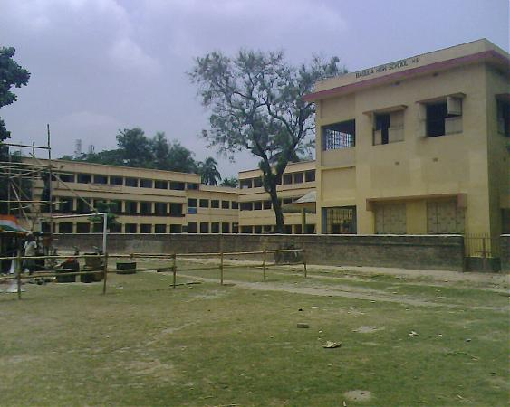 Bagula High School, Established in 1926